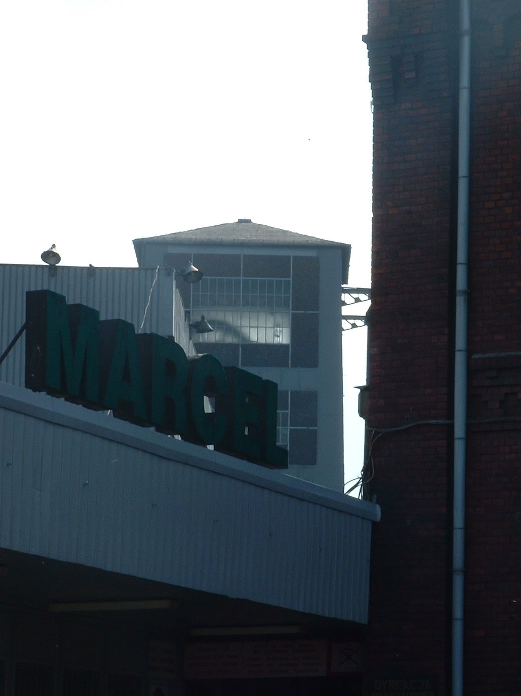 Marcel Coal Mine, Radlin, Silesia, Poland. Wiktor Shaft, built by Hans Poelzig around 1907.